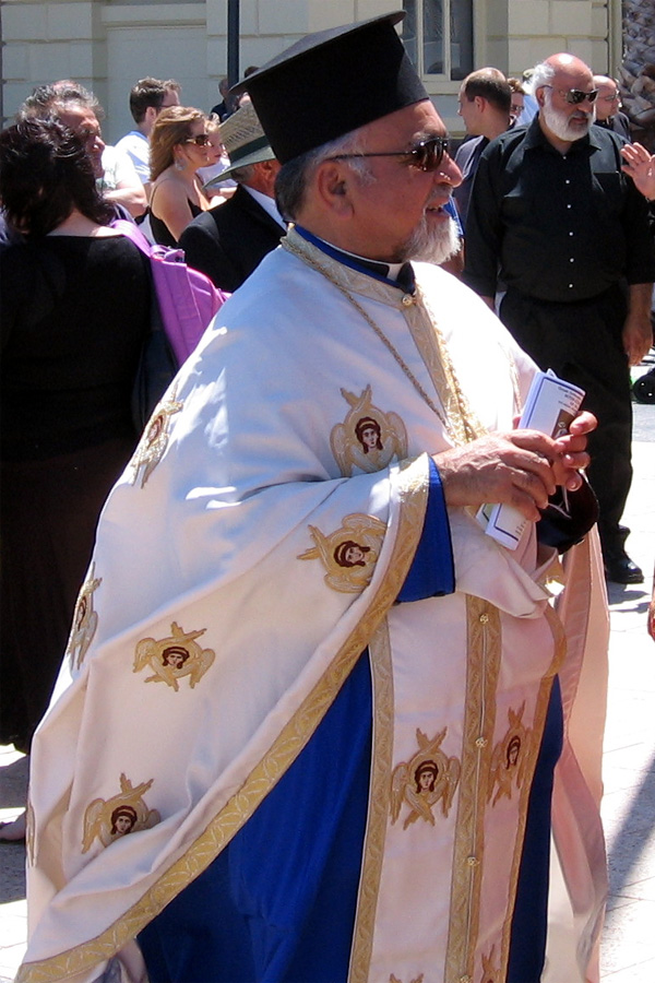 Father Diogenis